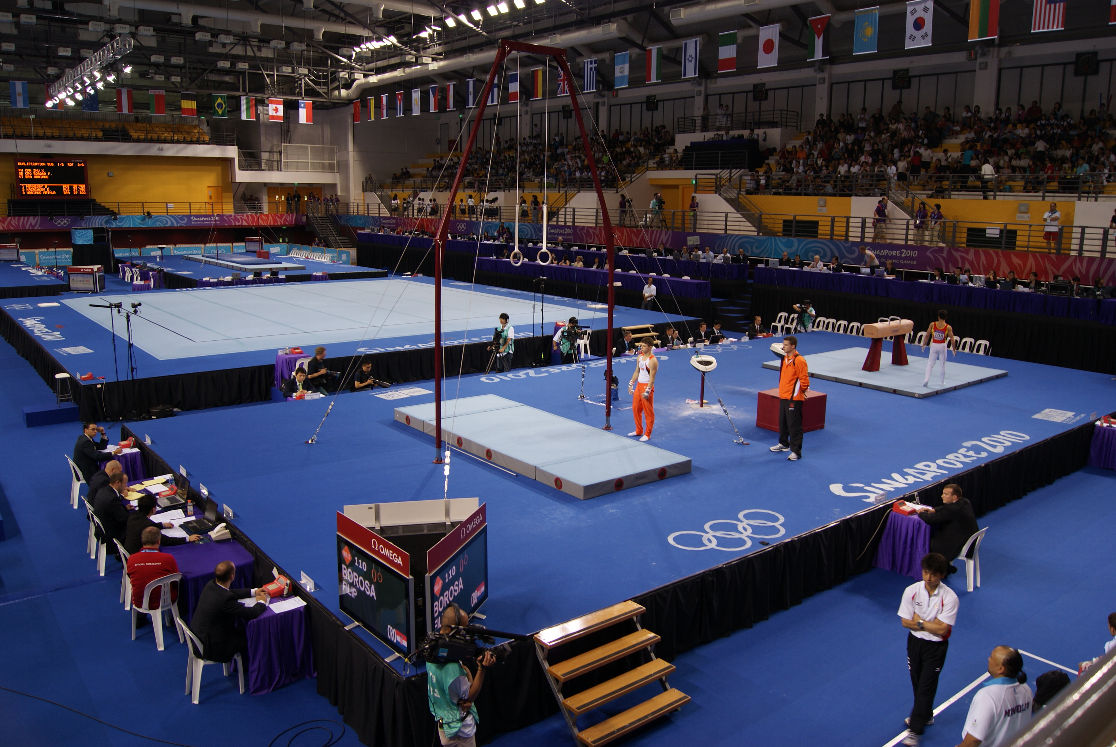 Croatian gymnast Filip Boroša about to perform on the rings during Men's Qualification – Subdivision 1 of the artistic gymnastics competition at the 2010 Summer Youth Olympics at Bishan Sports Hall, Singapore.